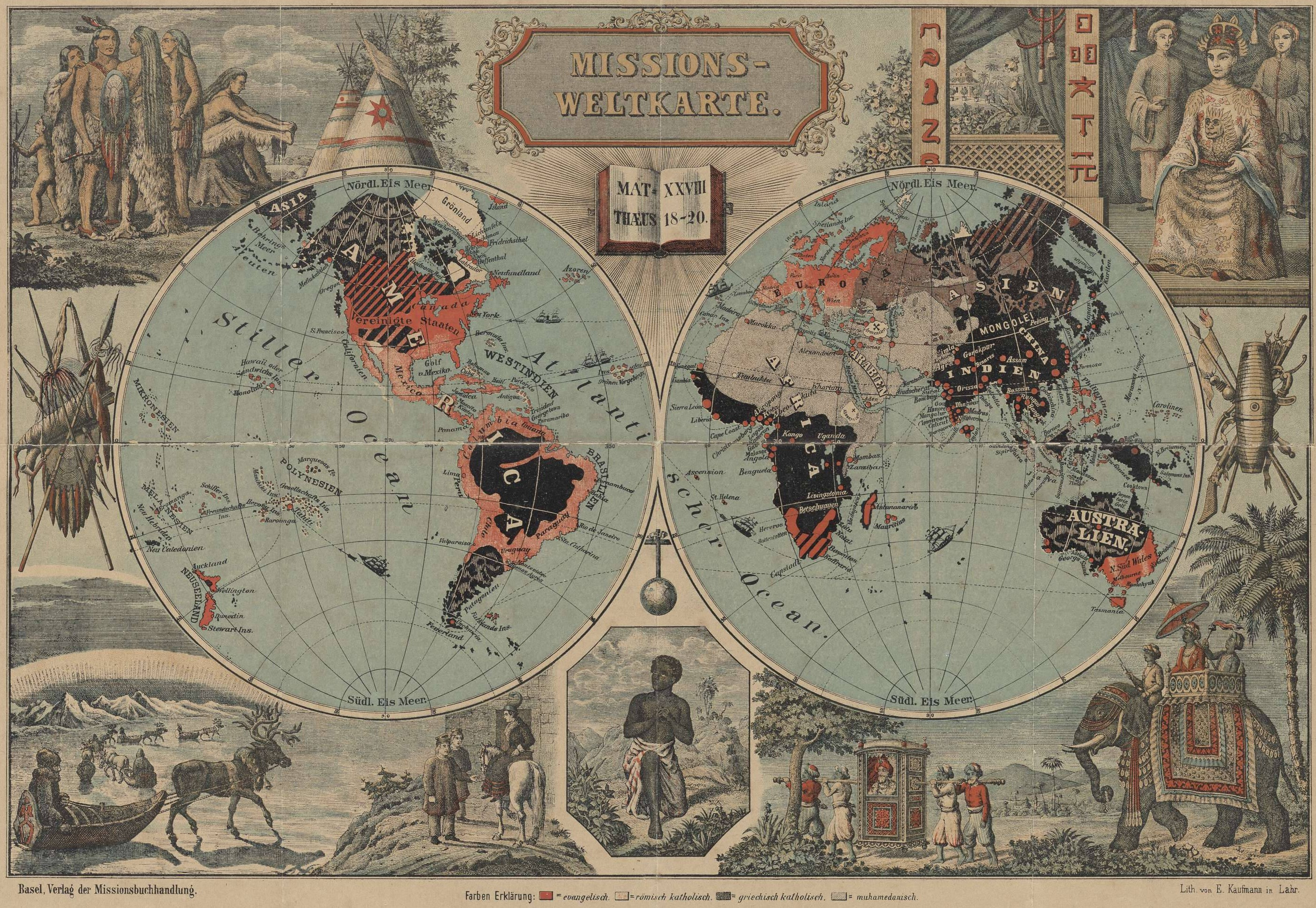 31 x 46 cm Scale ca. 1:80.000.000 Publisher: Basel : Verlag der Missionsbuchhandlung